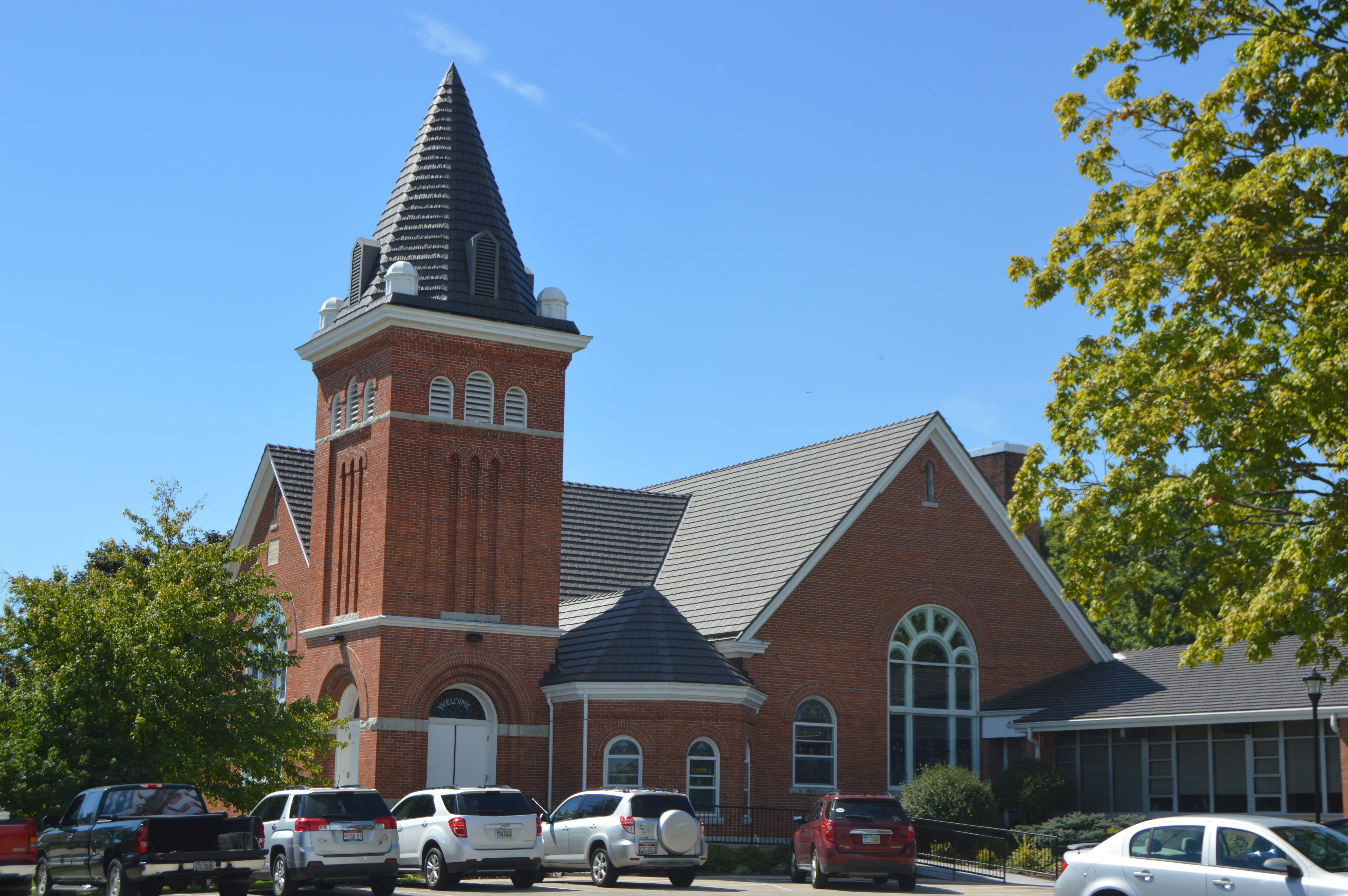 Front and northern side of Slifers Presbyterian Church, located at 2999 Clayton Road in Jackson Township, Montgomery County, Ohio, United States.